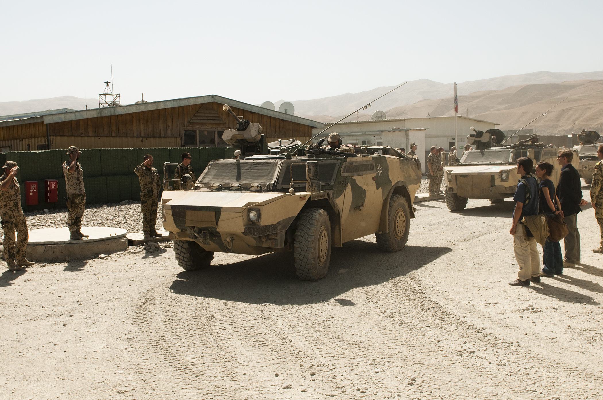 Fayzabad, Afghanistan: German soldiers in Provincial Reconstruction Team Feyzabad welcome back members of it Operational Mentoring and Liaison Team and 106 Protection Company soldiers after completing operation ARAGON in Archi District, where they mentored the Afghan National Army. Official Photo by Petty Officer 1st Class Ryan Tabios, ISAF HQ Public Affairs.